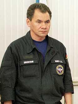 Sergey Shoigu